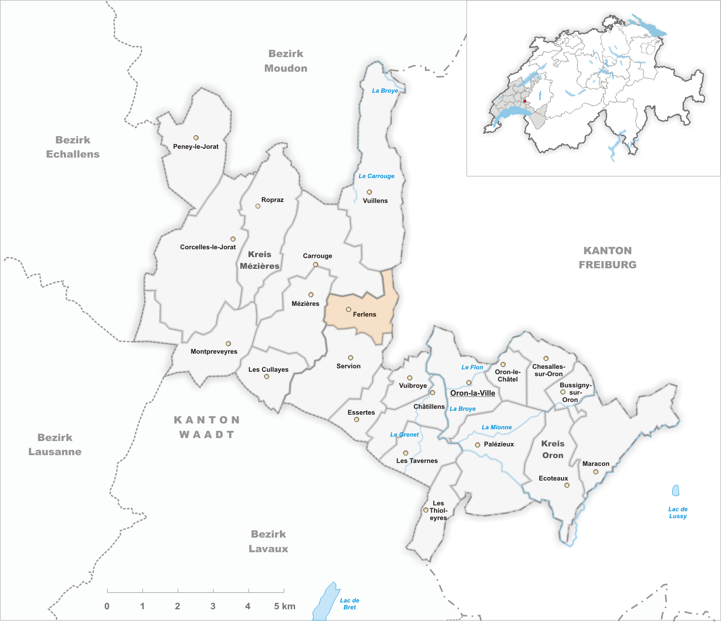 Municipality Ferlens